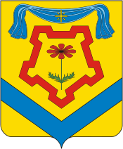 Coat of arms of Otradnaya, Krasnodar